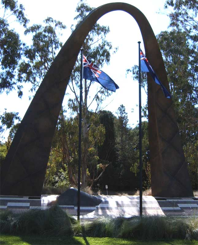 Australia-New Zealand Memorial, Canberra - western or Australian component.